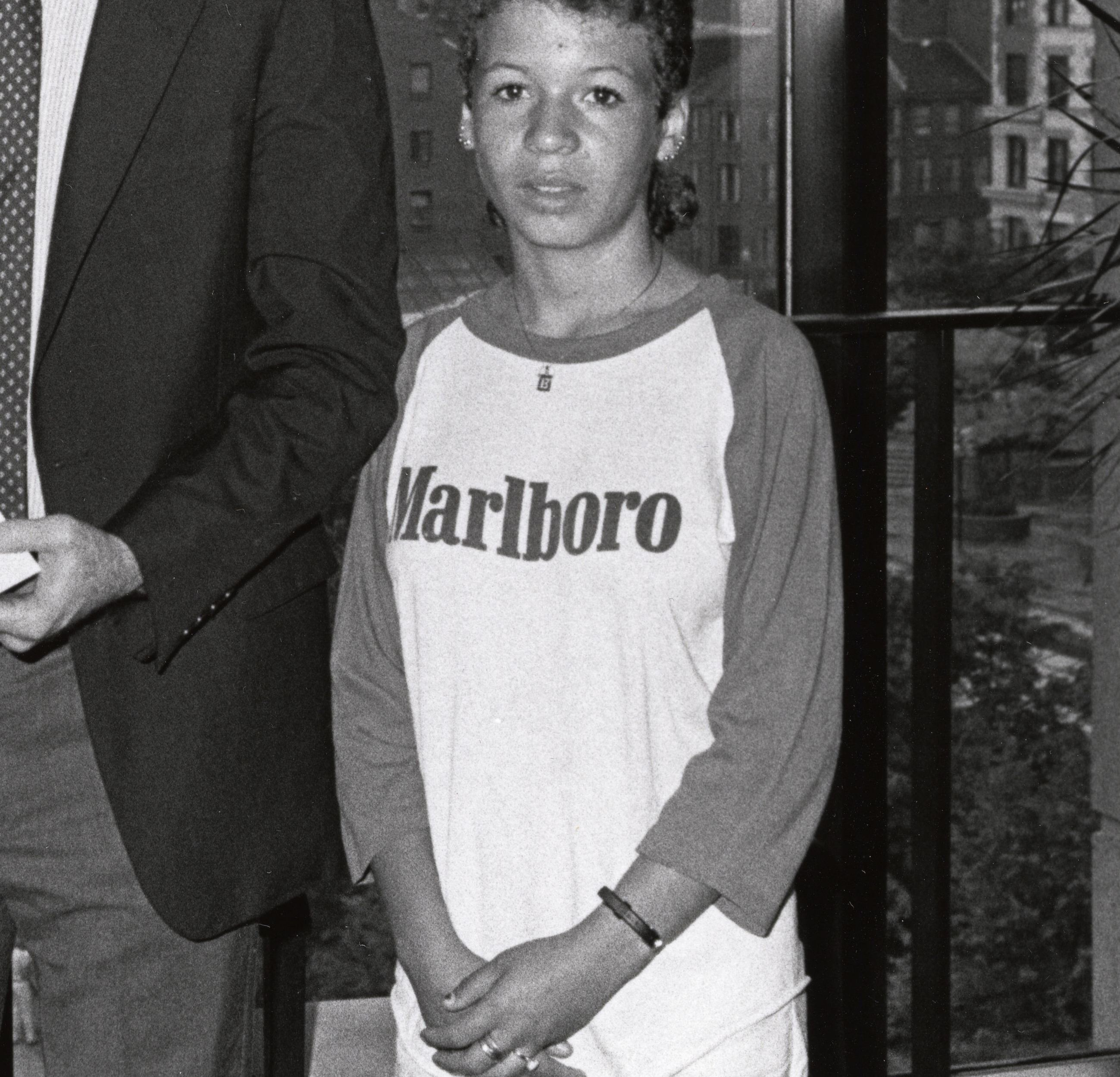 Title: Mayor Raymond L. Flynn with unidentified children Creator: Mayor's Office - City Photographer Date: circa 1984-1987 Source: Mayor Raymond L. Flynn records, Collection #0246.001 File name: RF_0379 Rights: Copyright City of Boston Citation: Mayor Raymond L. Flynn records, Collection #0246.001, City of Boston Archives, Boston